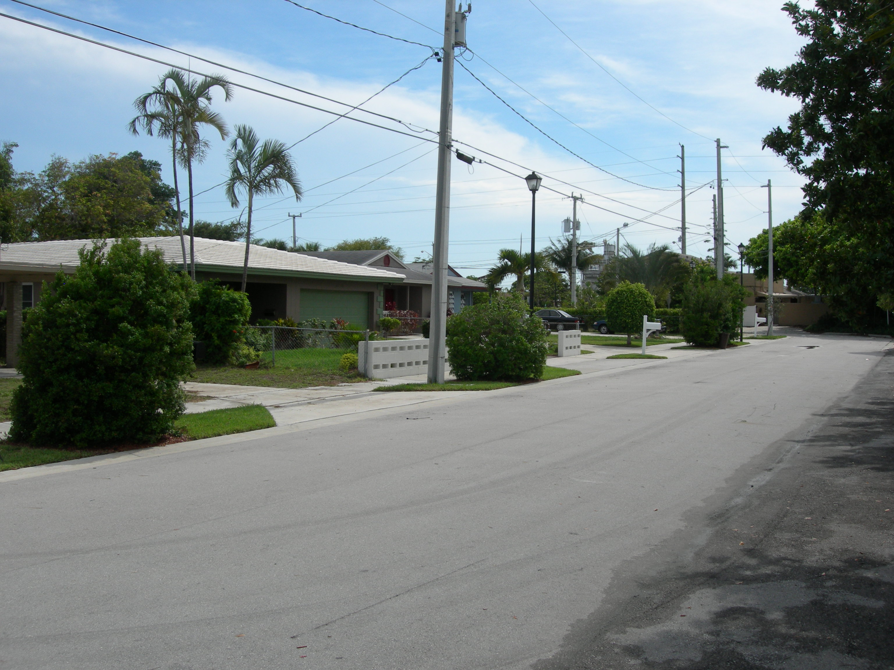 Houses on a residential street in the Pearl City neighborhood of Boca Raton, Florida, USA